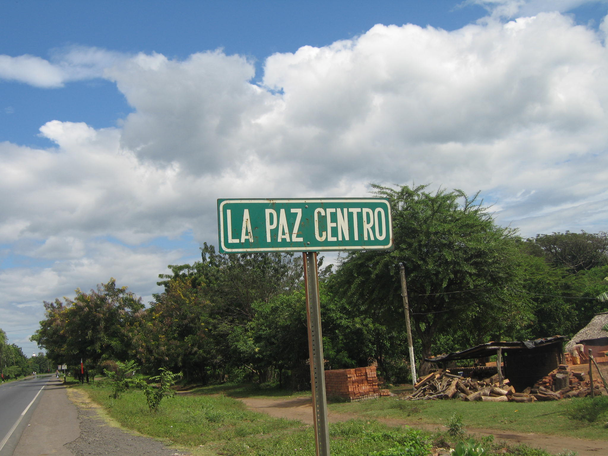 The sign for entering the municipality of La Paz Centro, Nicaragua.